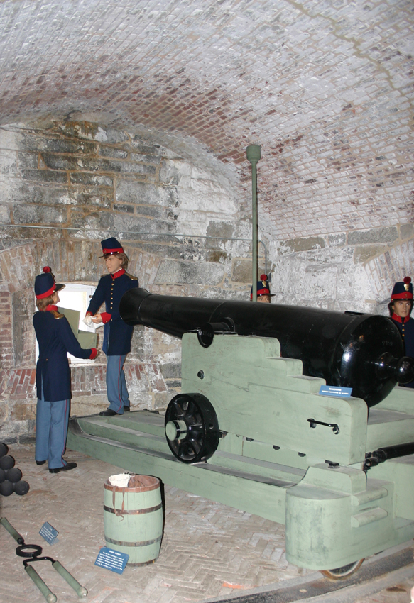 Casemate Museum Display